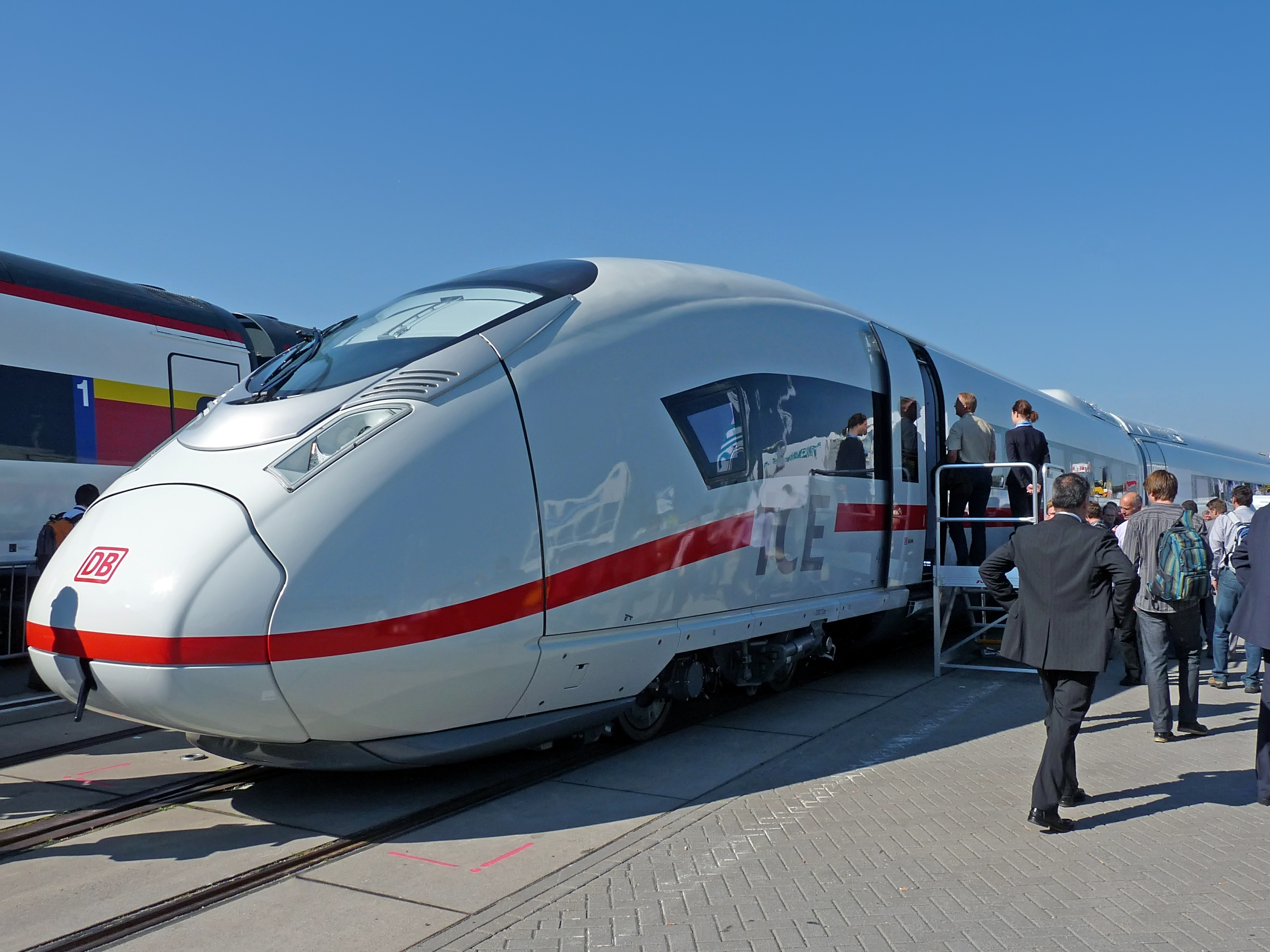 End vehicle of a Velaro D trainset (Deutsche Bahn Class 407) at Innotrans 2010.